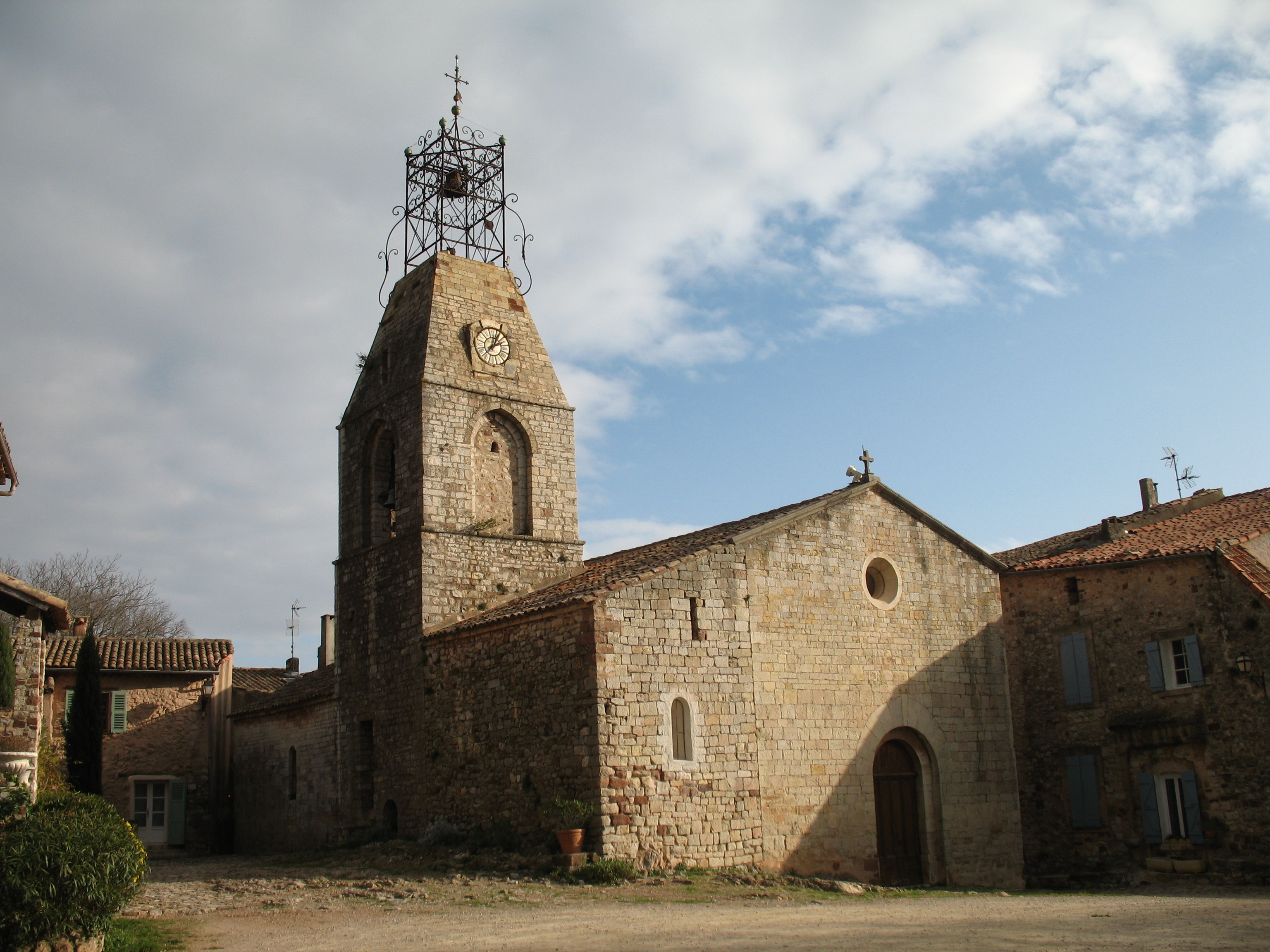 Le Cannet-des-Maures, Var - Church Saint Michel of Vieux-Cannet - Main overview